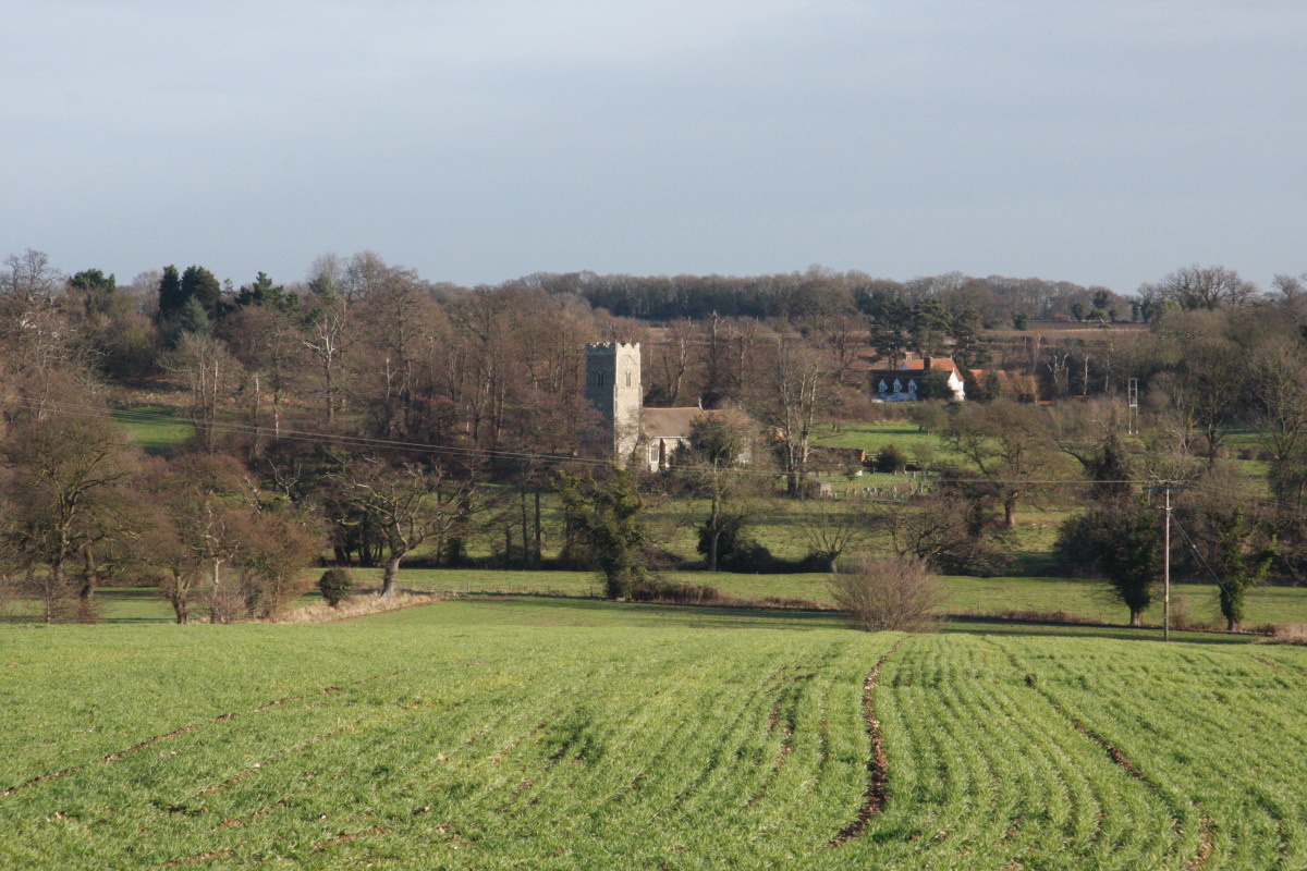 The church and countryside